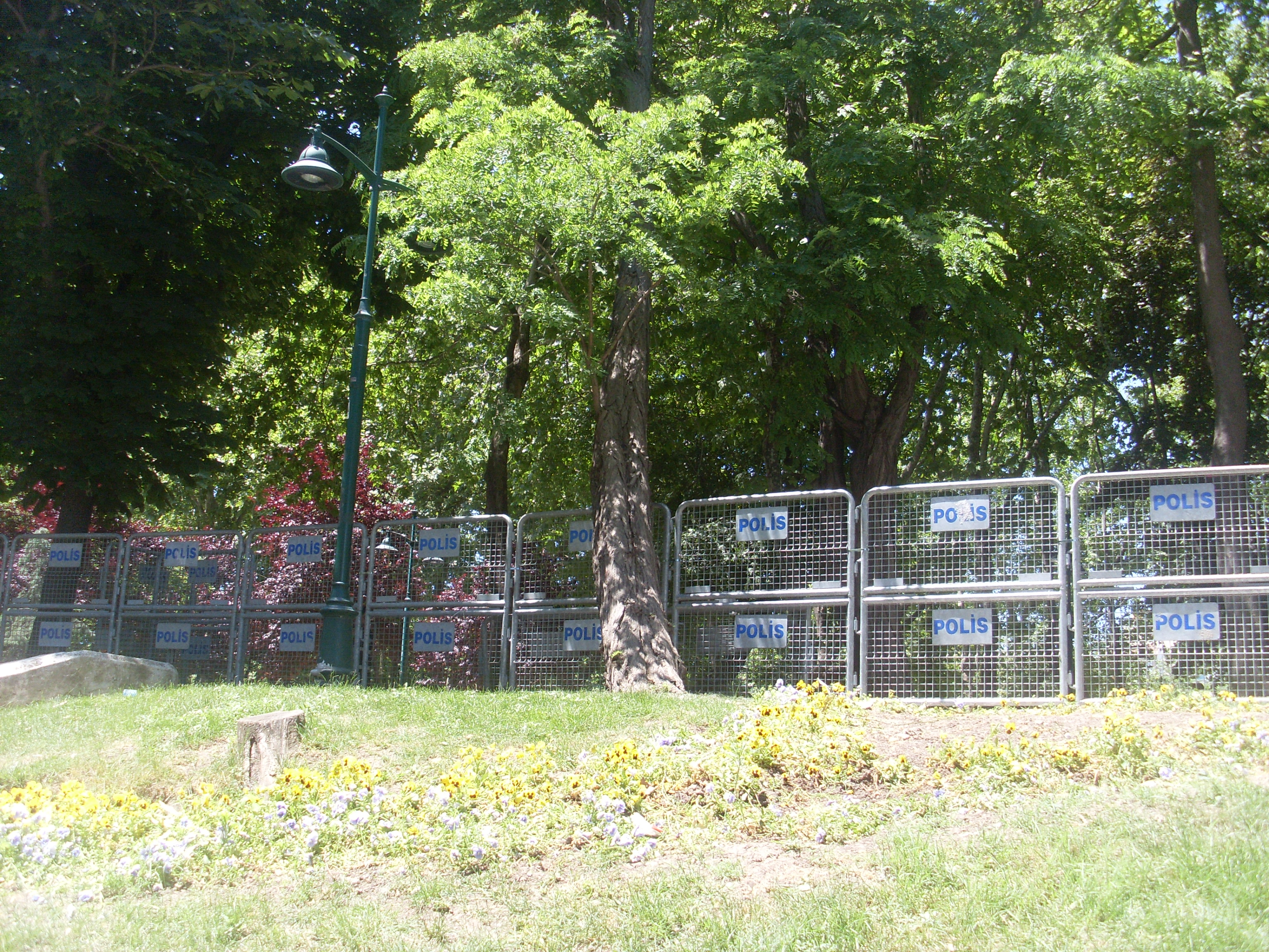 2013 Taksim Gezi Park protests P20, Police barriers in front of Taksim Gezi Park